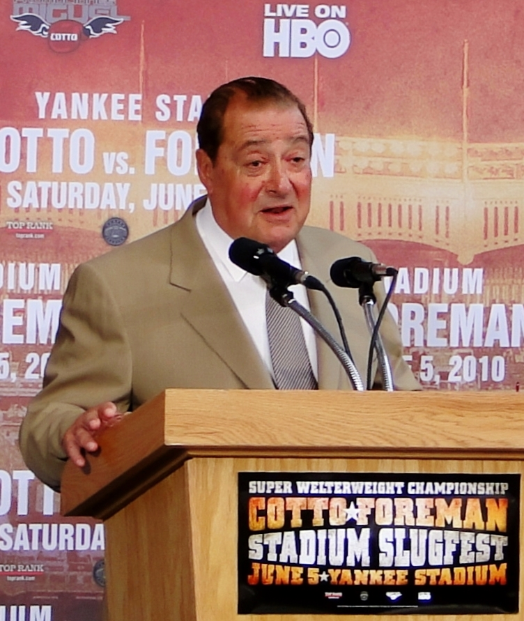 Bob Arum at the press conference for the fight between Miguel Cotto and Yuri Foreman in 2010.